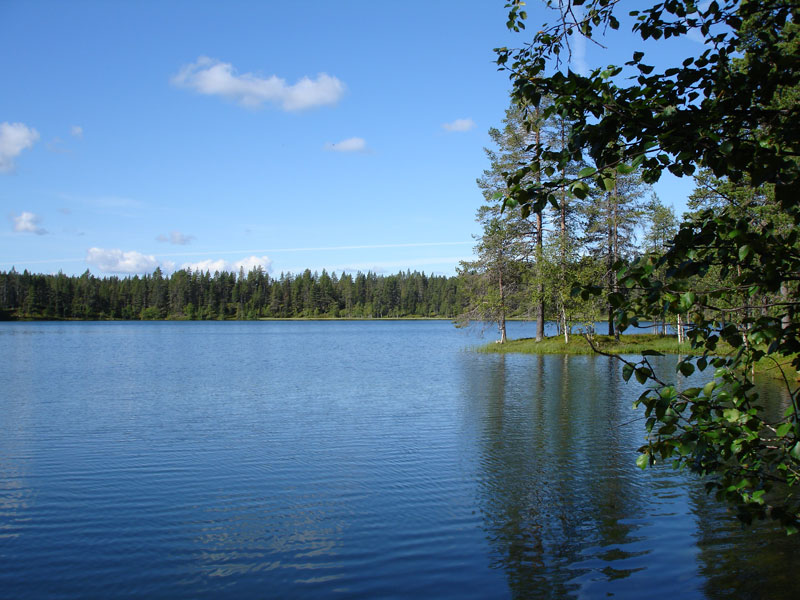 Lake Kaakkurijärvi in Gällivare Municipality, northern Sweden.